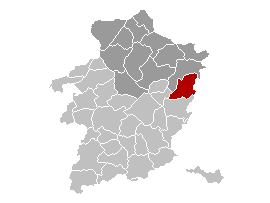 Map, municipality belgium Dilsen-Stokkem.